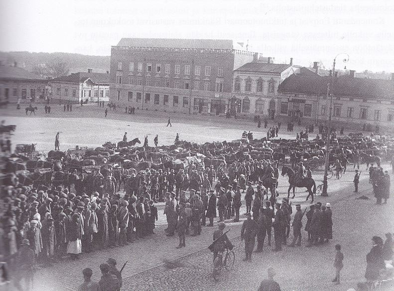 Red Guard prisoners of the 1918 Finnish Civil War at Hämeenlinna, Finland.